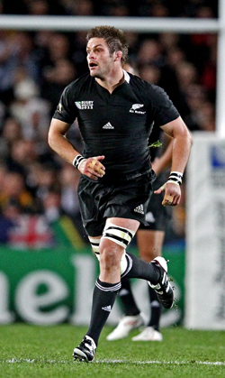 Richie McCaw 2011 NZL vs AUS (cropped)